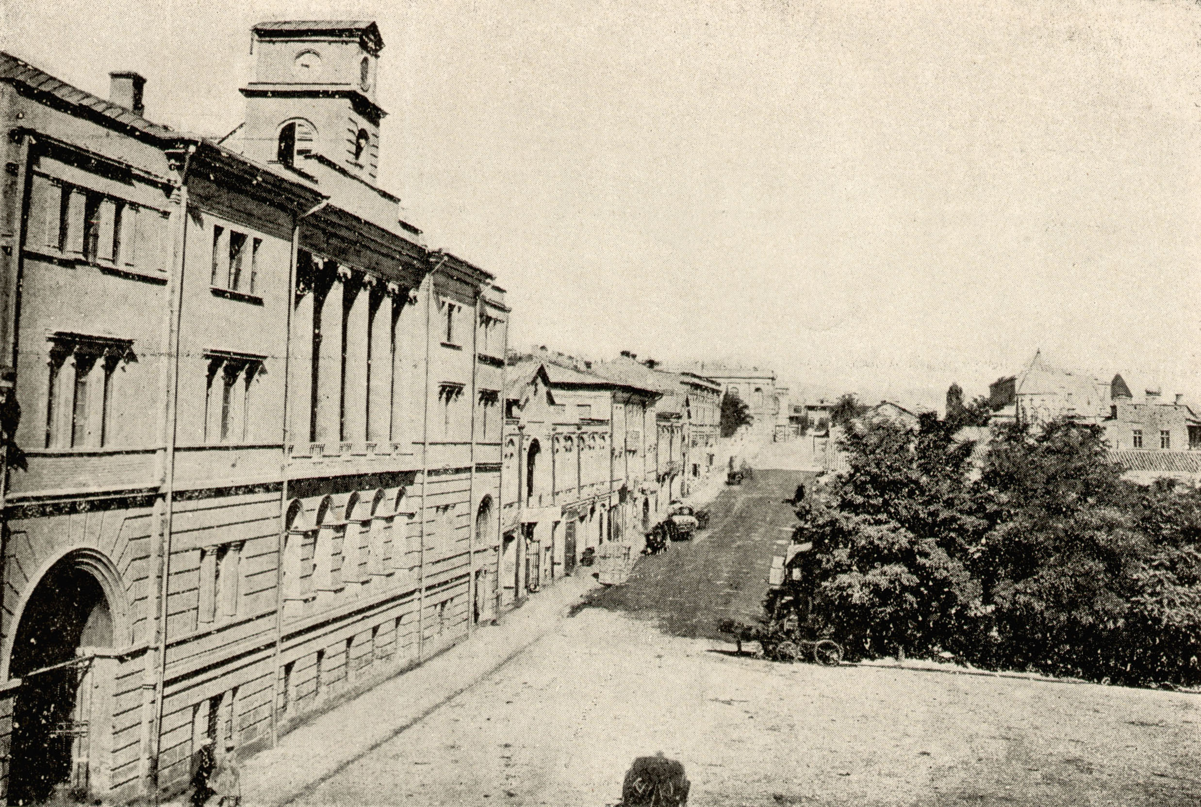 View to Rustavelis Gamziri from Freedom square, Tbilisi XIX c. Sepia toned photo.